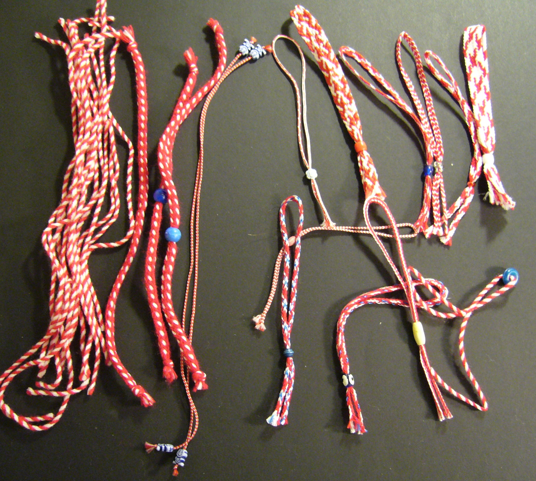 Martenitsa, or Pijo and Penda, a Bulgarian tradition, celebrating the spring arrival. See also: Martenitsa. Alt. spellings: Martenitza, Pizho and Pendo, Martenitsi, Martenichki, Martenichka, Martenica.